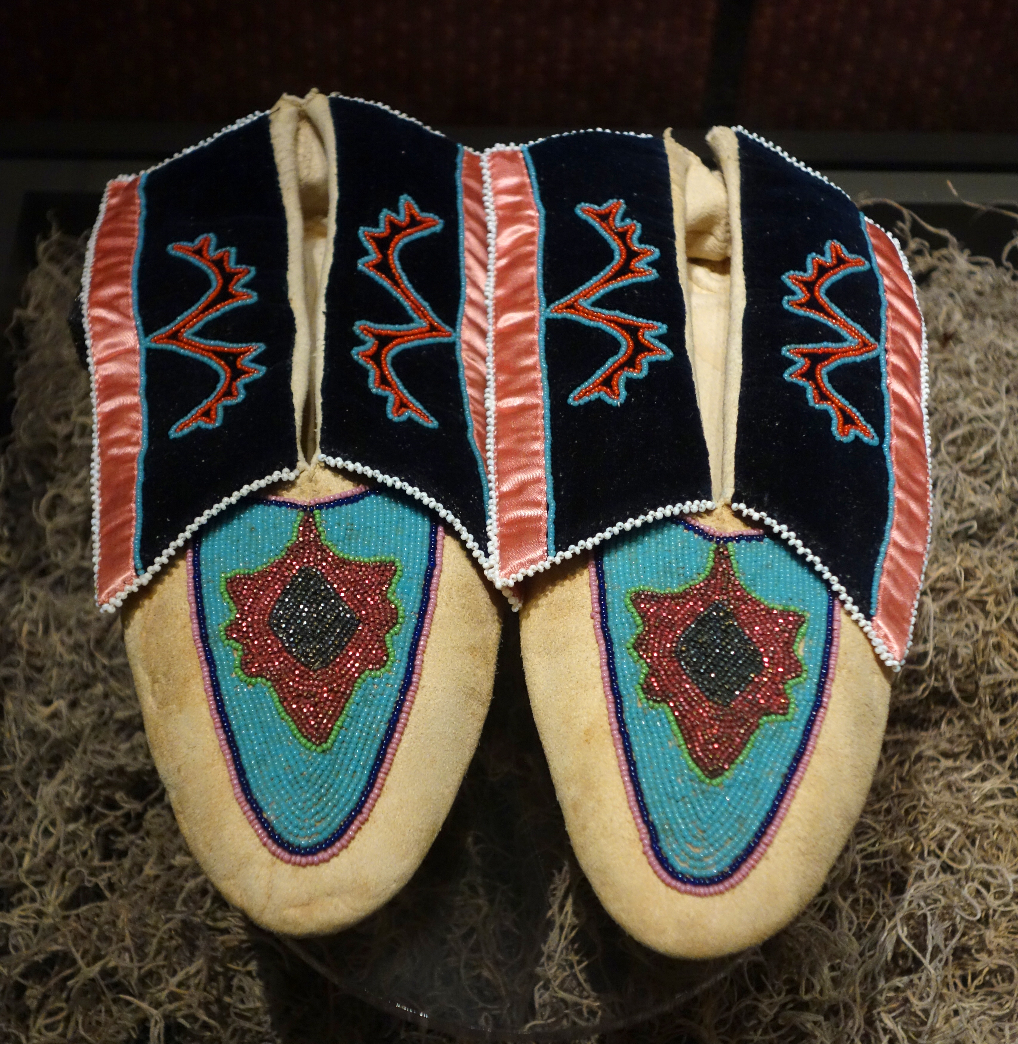 Exhibit in the Bata Shoe Museum, Toronto, Ontario, Canada. This item is old enough so that its design is in the public domain. The museum permitted photography without restriction.